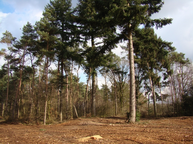 National Landscape Winterswijk